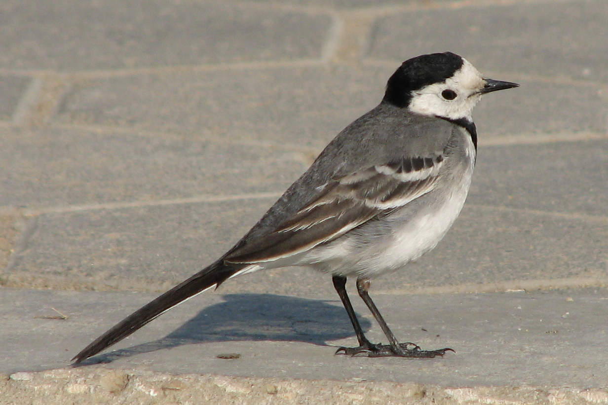 White Wagtail (Motacilla alba) in a park in Cairo